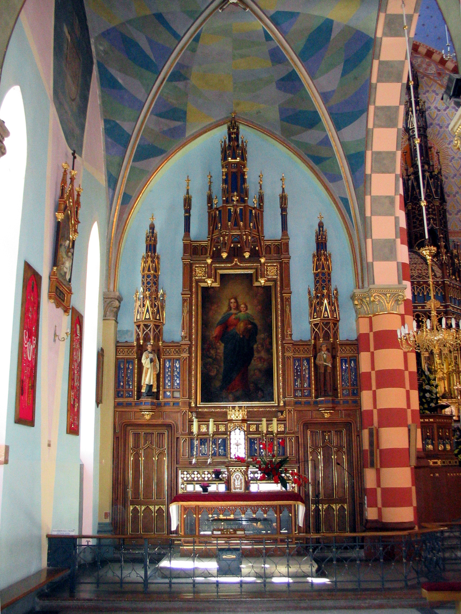 Relics of August Czartoryski in Salesians Church in Przemyśl, Poland